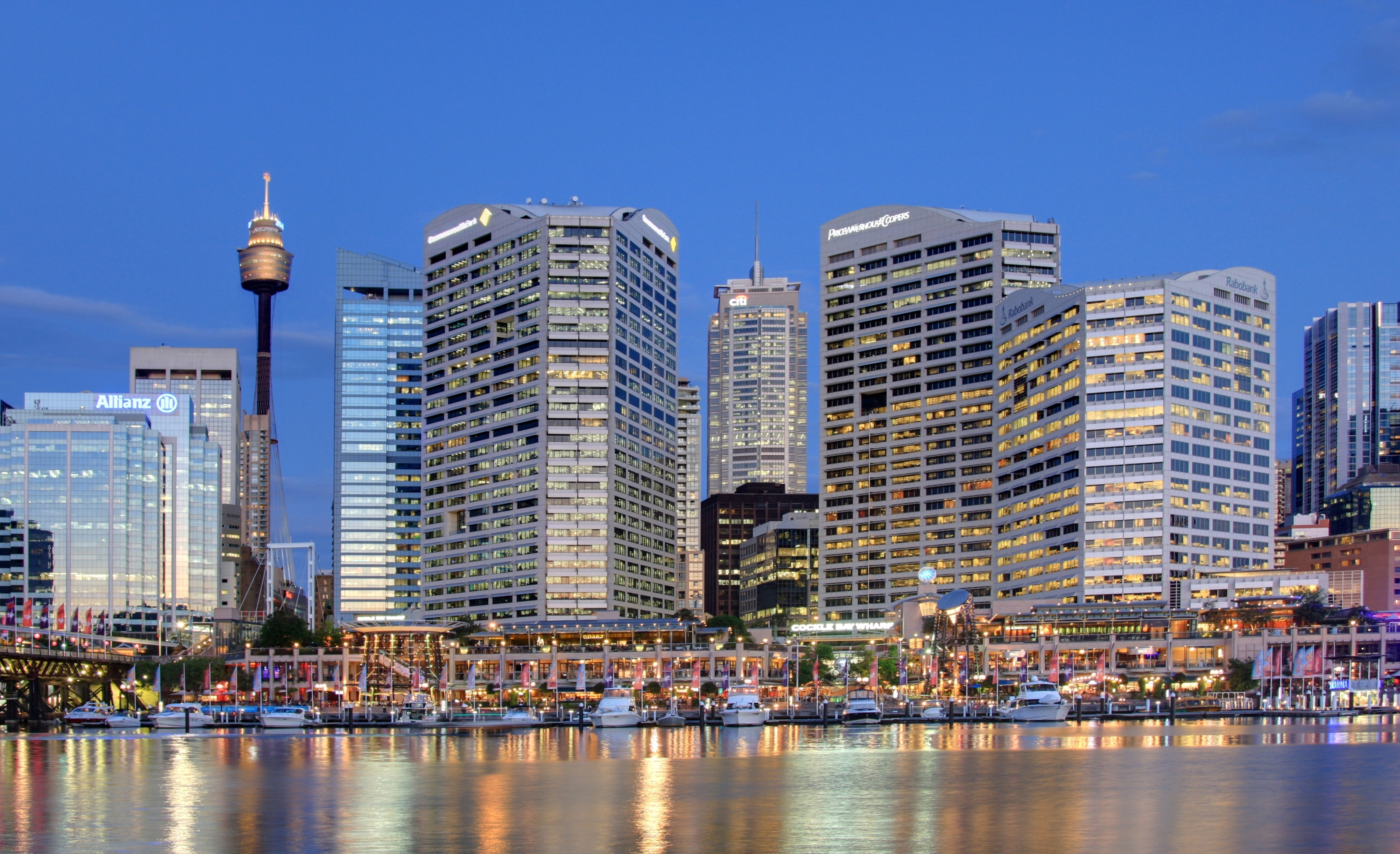 Sydney from Darling Harbour